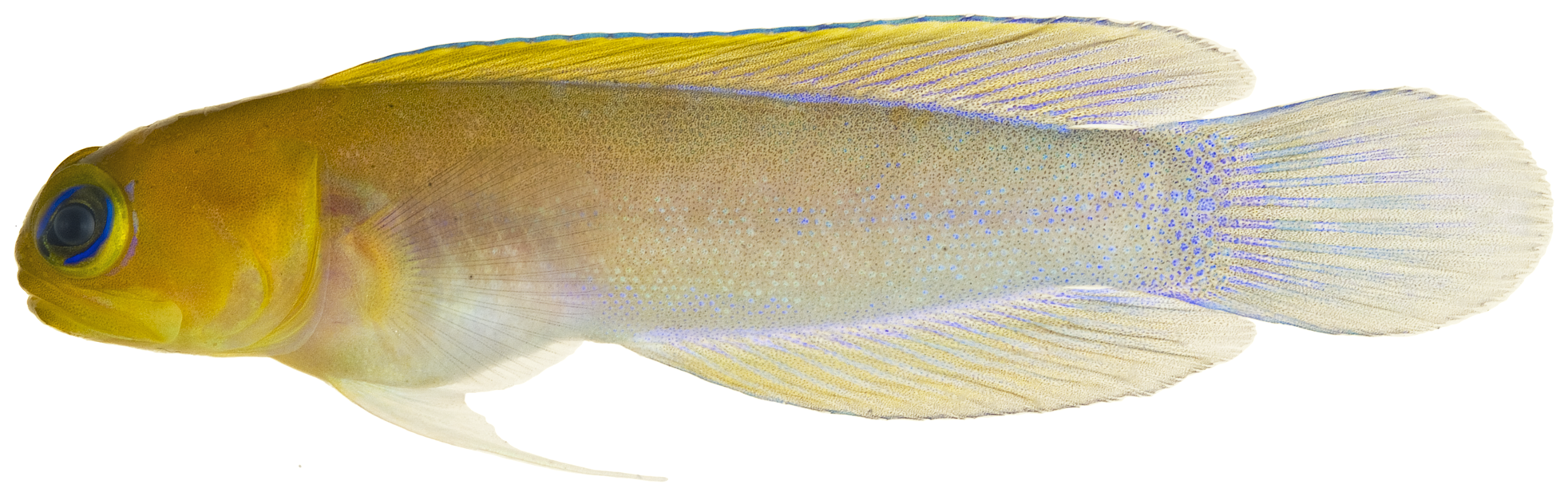 Opistognathus aurifrons (Jordan & Thompson, 1905)—yellowhead jawfish, 44.1 mm SL. Photo by JT Williams.